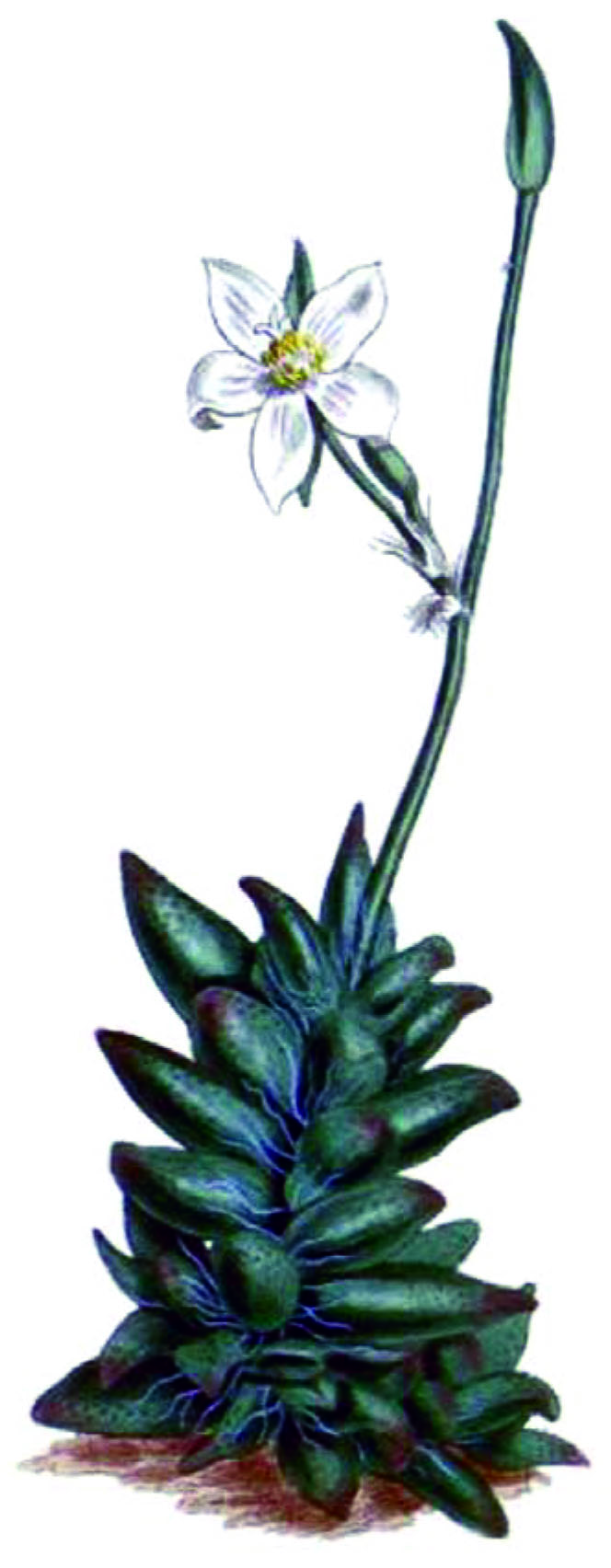 Anacampseros arachnoides. White-Flowered Anacampseros